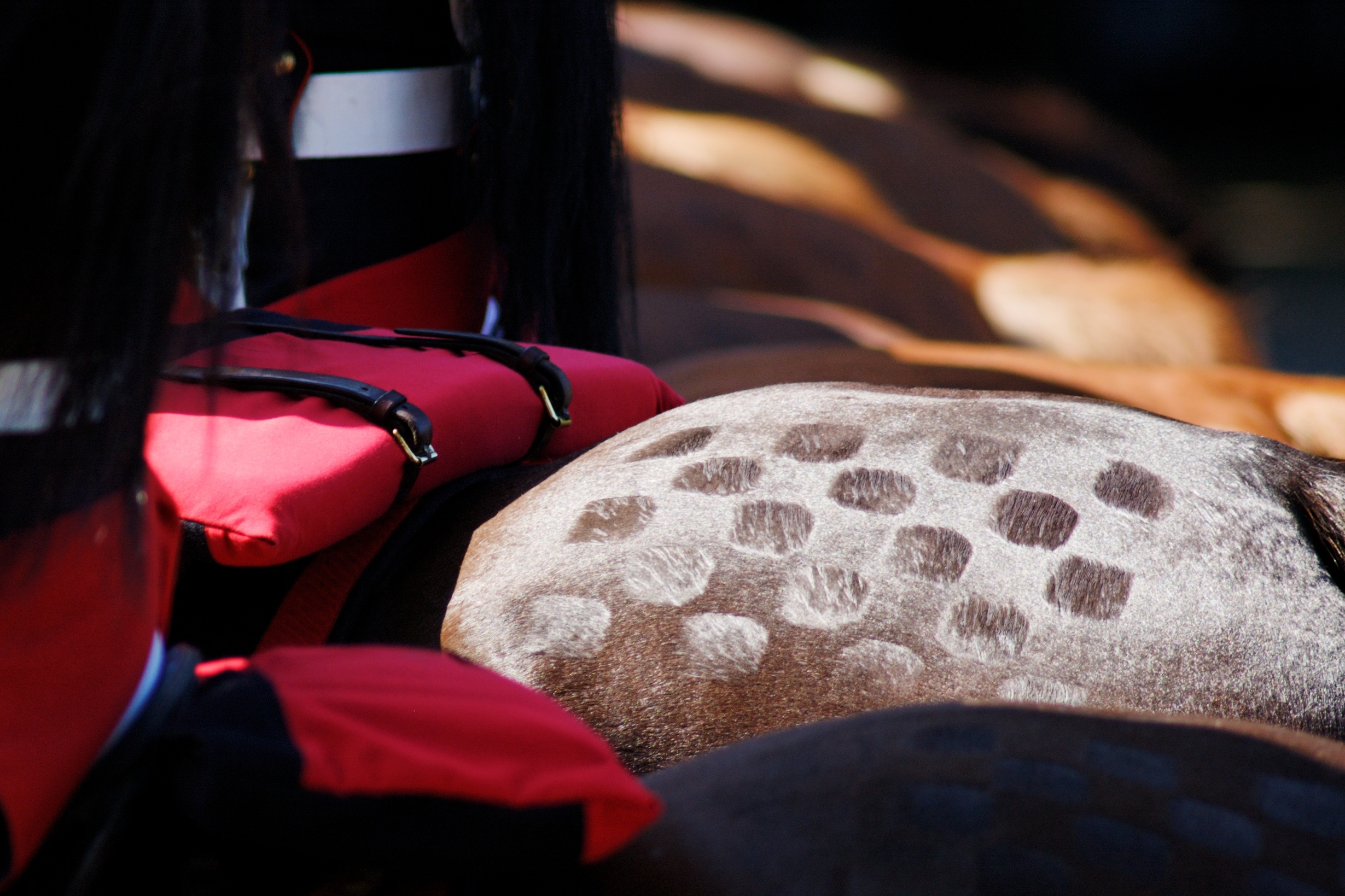 Checkerboard pattern on the rump of a horse from the Cavalry mounted regiment of the Republican Guard. Bastille Day 2008 military parade on the Champs-Élysées, Paris.